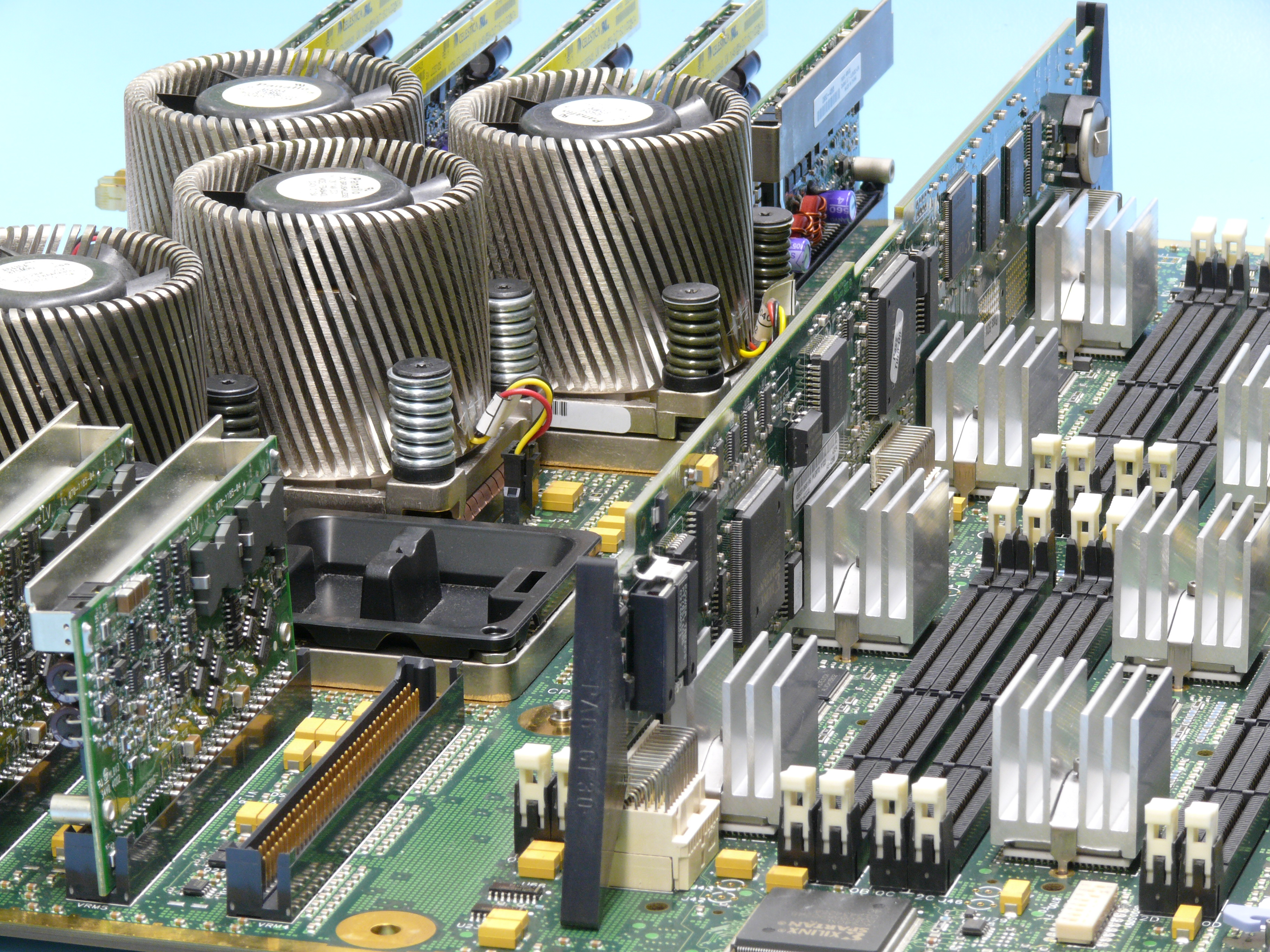 Hewlett-Packard HP9000 Integrity Server RP7410, CPU-Board for 4xPA-RISC 8700+ CPUs - 64 Bit - 875 MHz, HP Part No.: A6094-60001, here equipped with 3 CPUs